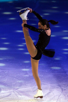 Sasha Cohen performs an I-spin. (2008 Stars on Ice in Portland)